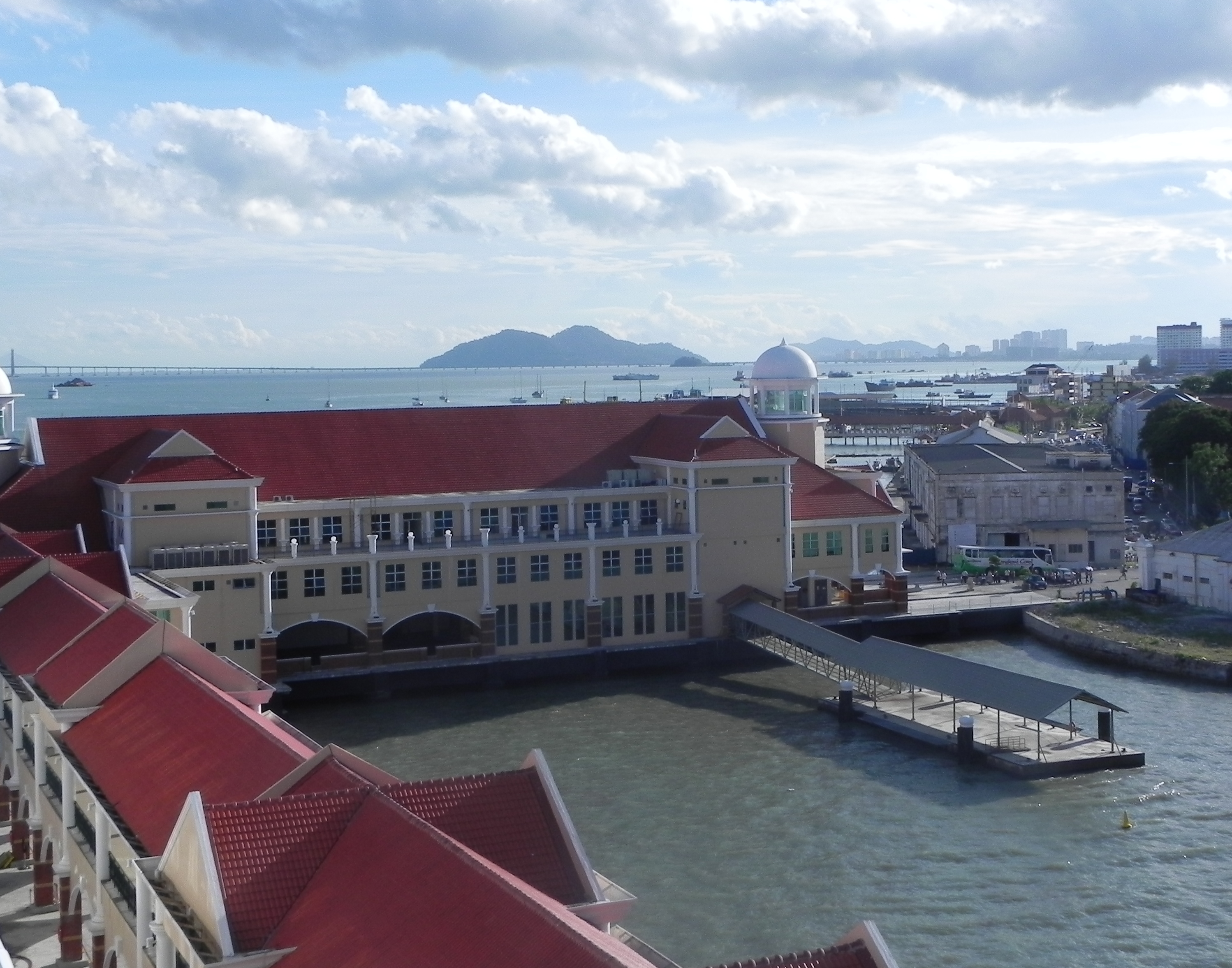 Harbour of George Town Penang (Malaysia)